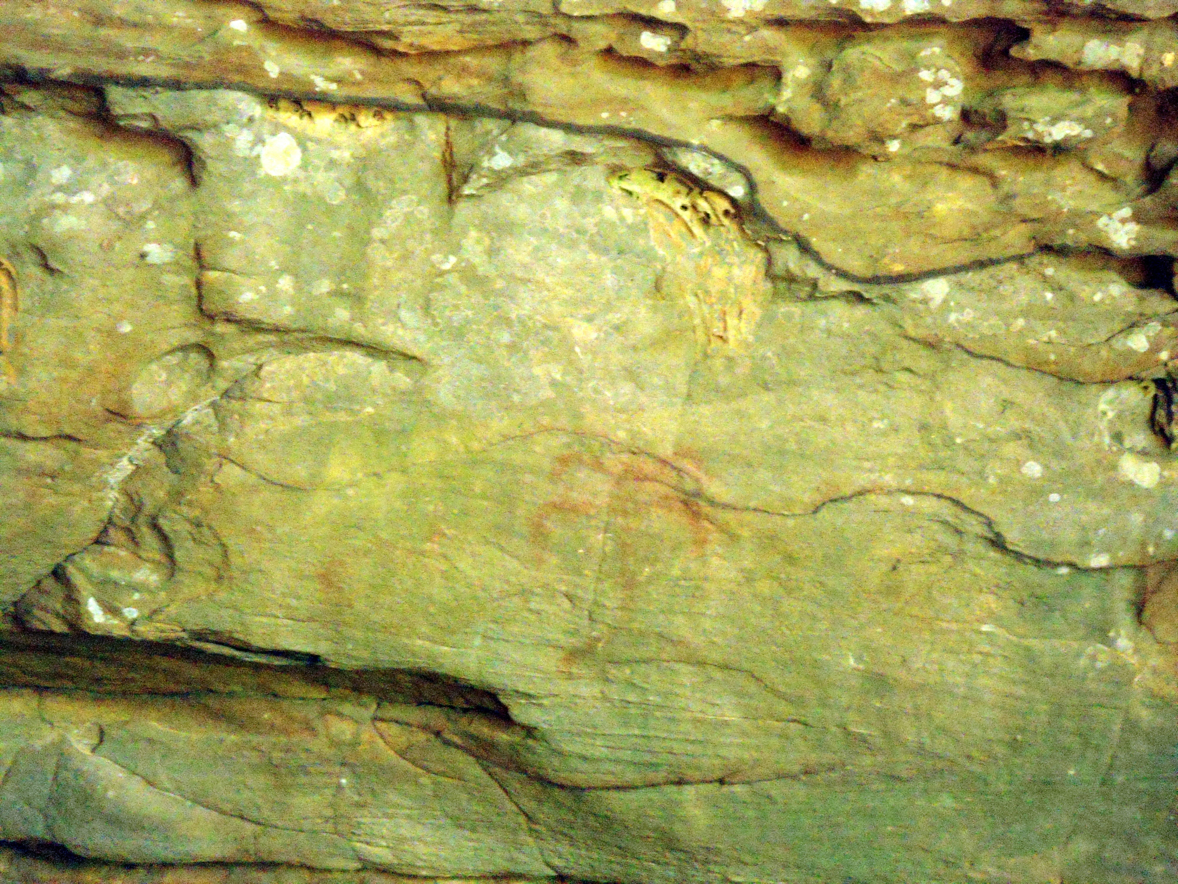 Native American cave art in Rockhouse Cave, Petit Jean State Park